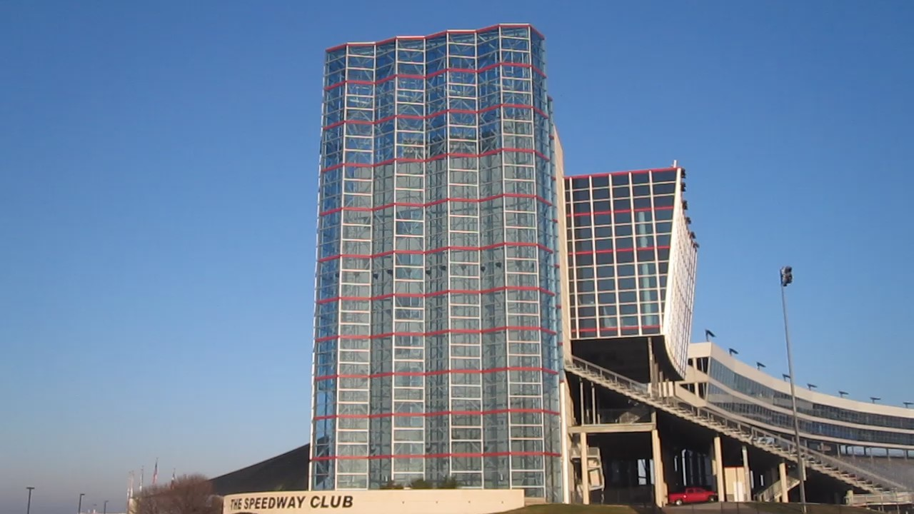 I took photo at Texas Motor Speedway with Canon camera.